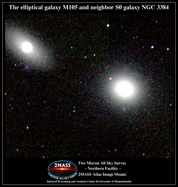 The elliptical galaxy Messier 105 and neighbor S0 galaxy NGC 3384